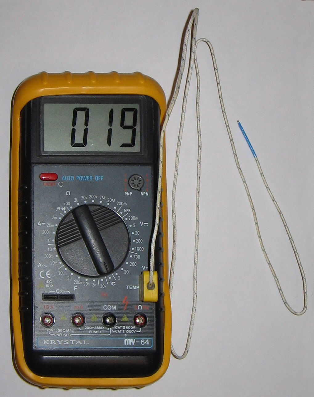 K type thermocouple plugged to a multimeter displaying room temperature in °C